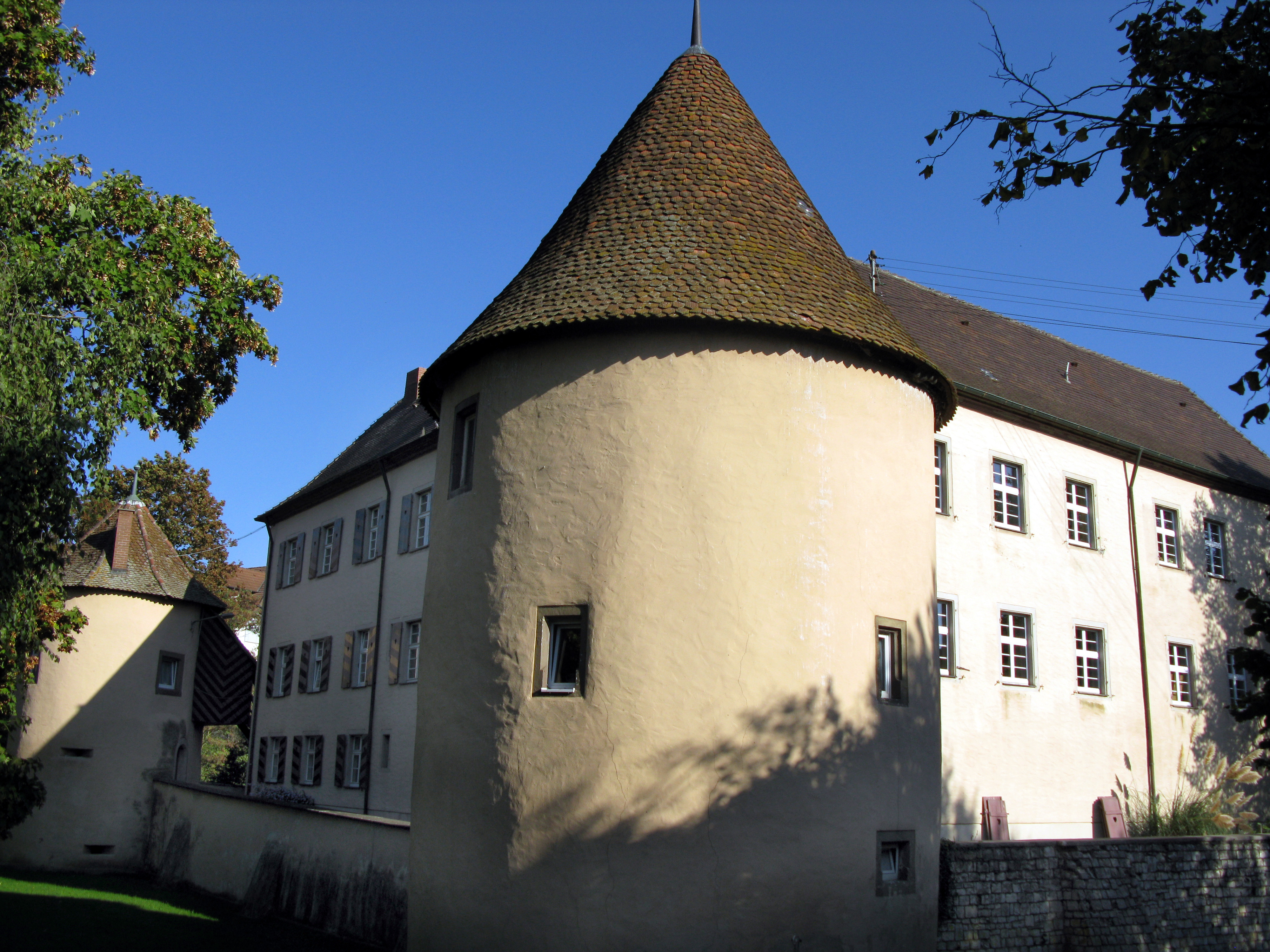 Ehrenkirchen-Kirchhofen, castle